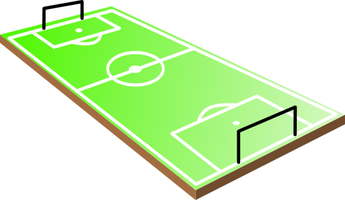 Football (soccer) Field